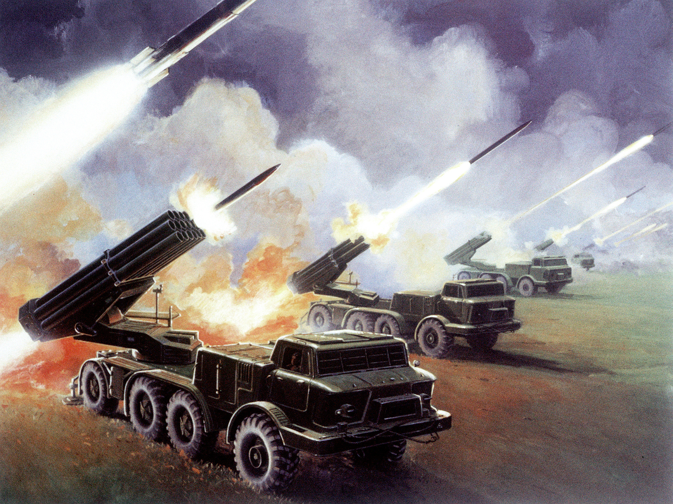 SOVIET BM-27 MULTIPLE ROCKET LAUNCHER The Soviet 16-tube, 220-mm BM-27 multiple rocket launcher was capable of firing high-explosive conventional rounds, scattering mines, and delivering chemical warheads as far as 40 kilometers. In the 1980s, it was widely used to provide long-range fire support to Soviet forces in Afghanistan.